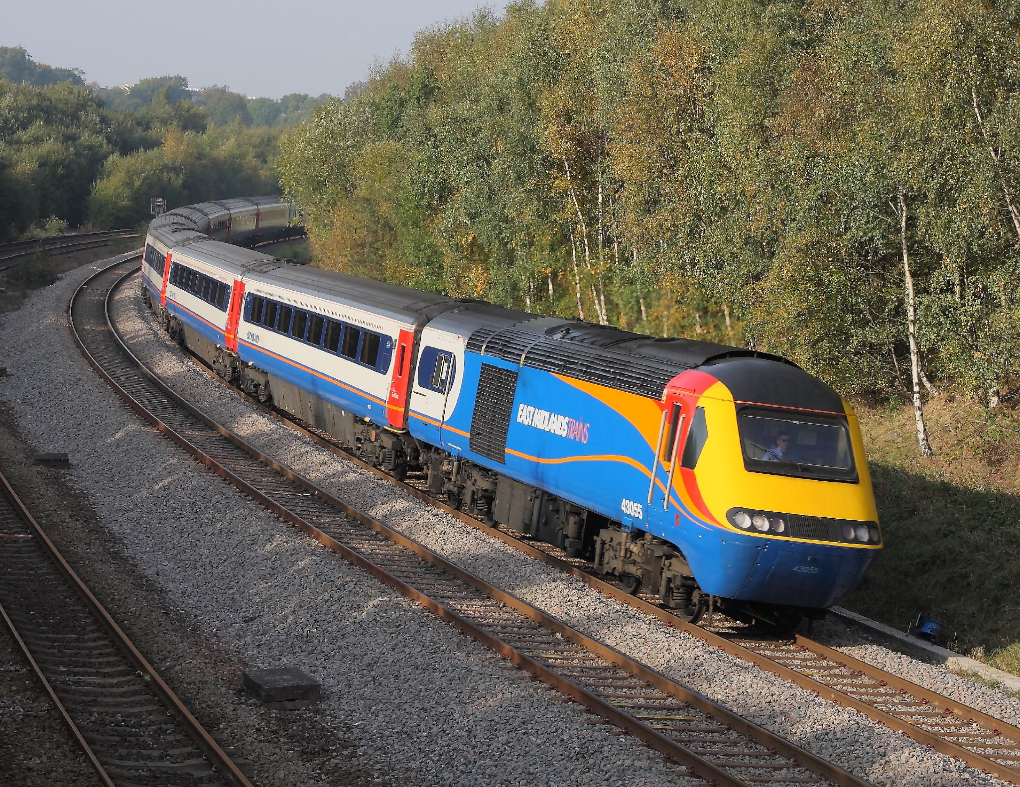 43055 Claycross